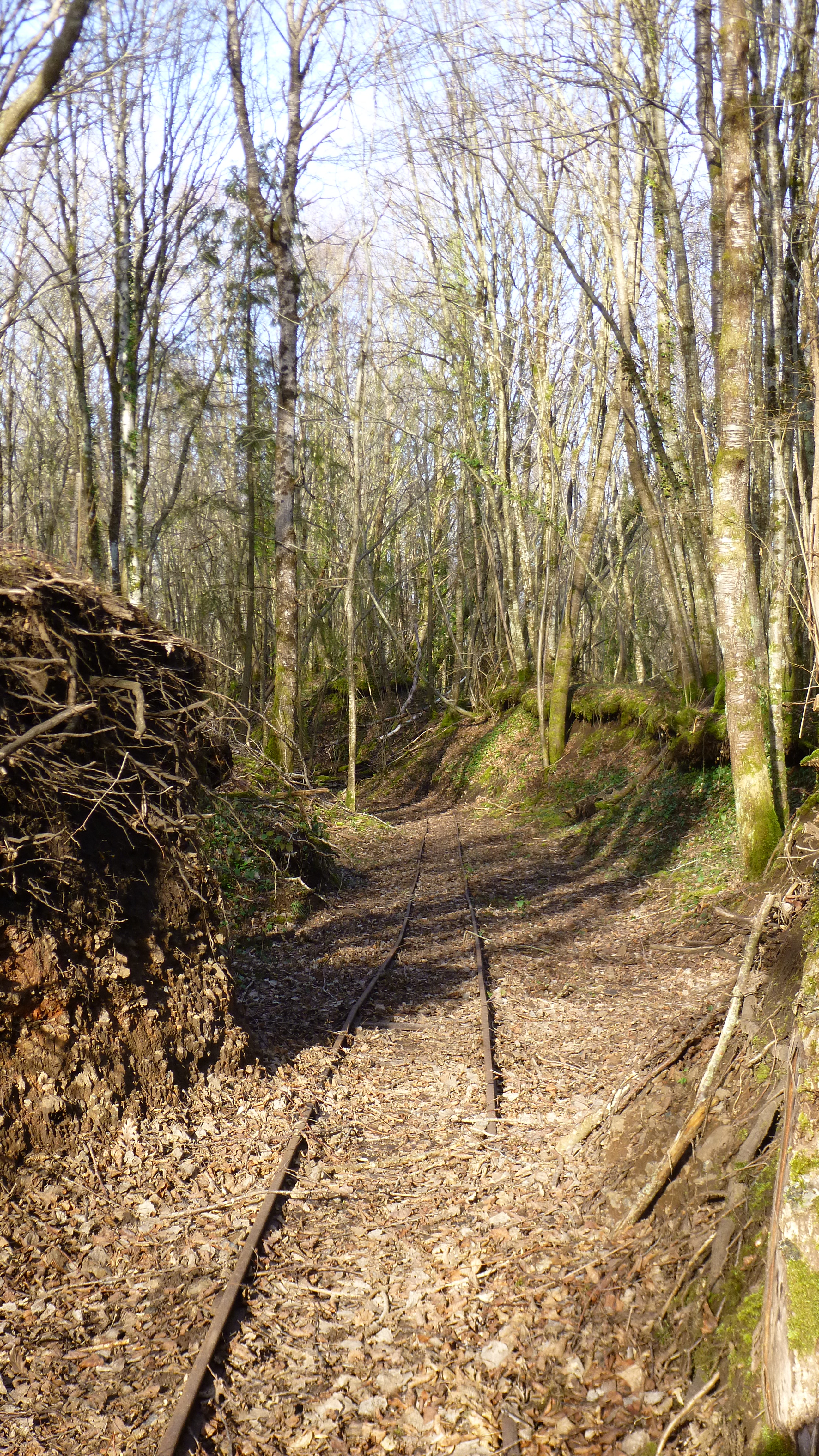 The "ferrier", Tannerre-en-Puisaye, Yonne, Burgundy, France. A whole railway network existed in the ferrier at the begining of the 20th century. Some of it was recreated in recent years to illustrate this industrial period. Here the 400 mm (1' 3 ¾ ) narrow gauge railway going through a path between mounds of slag towards the loading area, where slag was put onto a small train to be taken to Villiers-Saint-Benoit and further on from there.